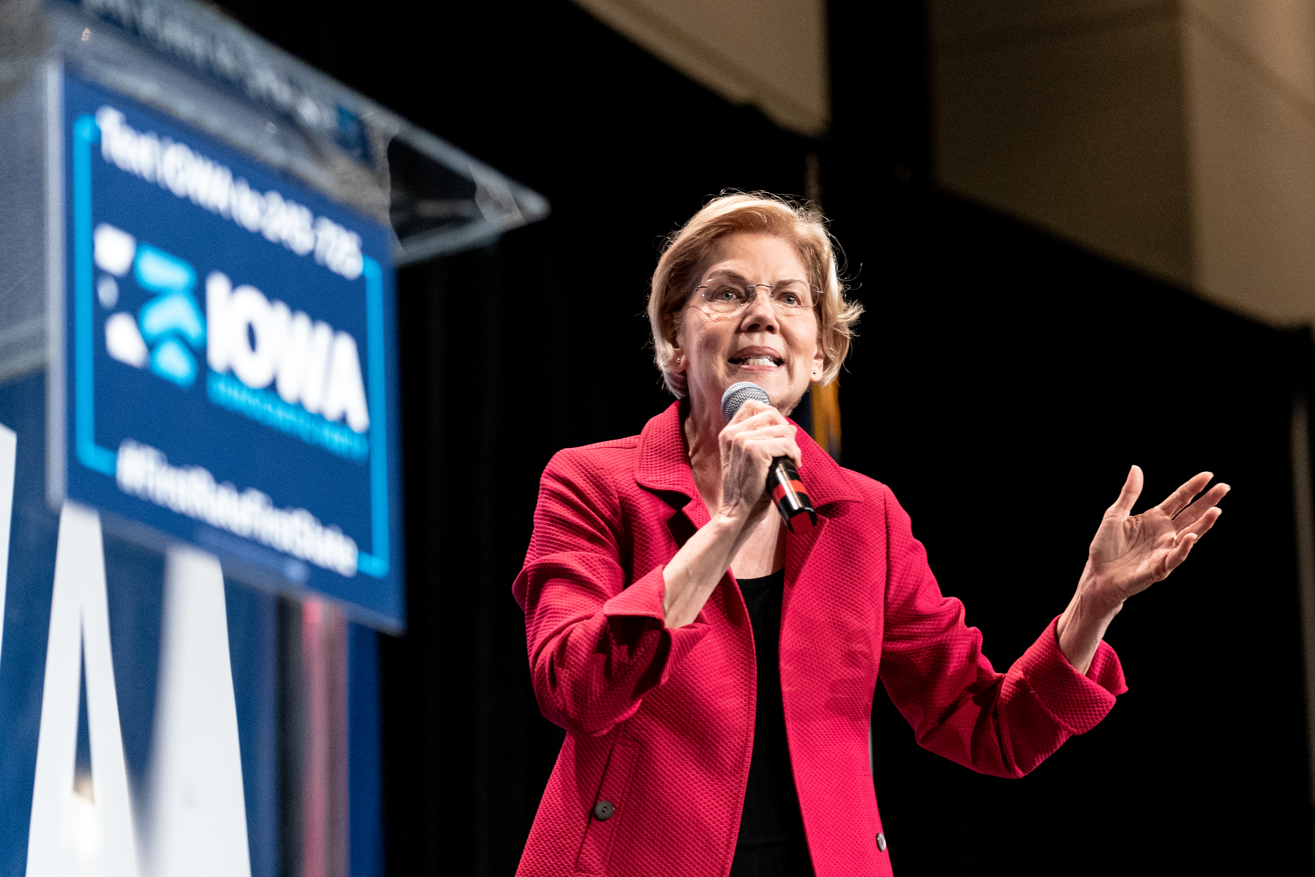 At the 2019 Iowa Democrats Hall of Fame Celebration in Cedar Rapids, Iowa on Sunday. June 9